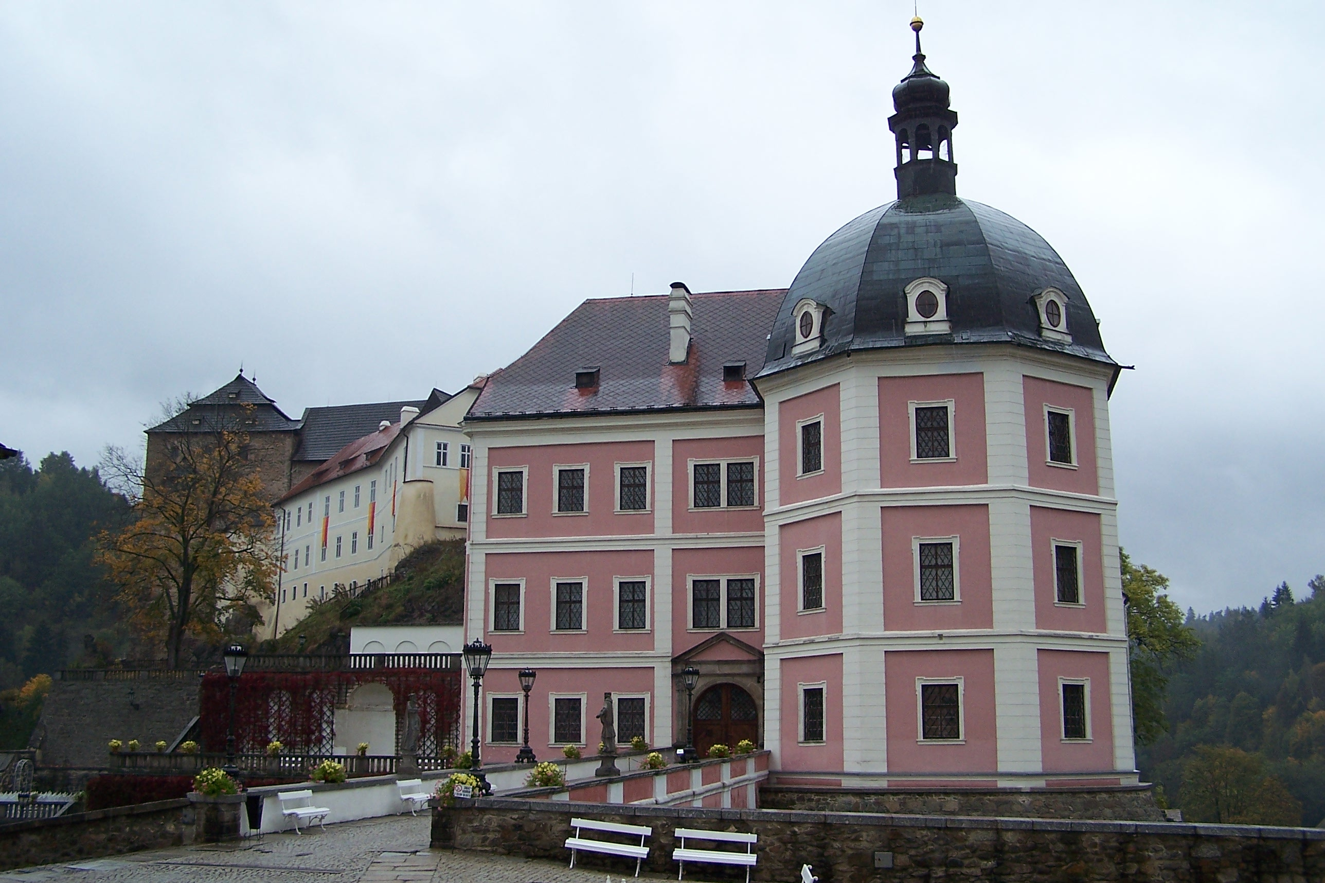 Palace and castle in Bečov nad Teplou (Czech Republic)